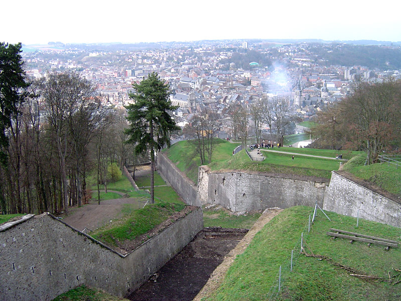 Namur, Belgium, from the citadel above the town. Image by ChrisO